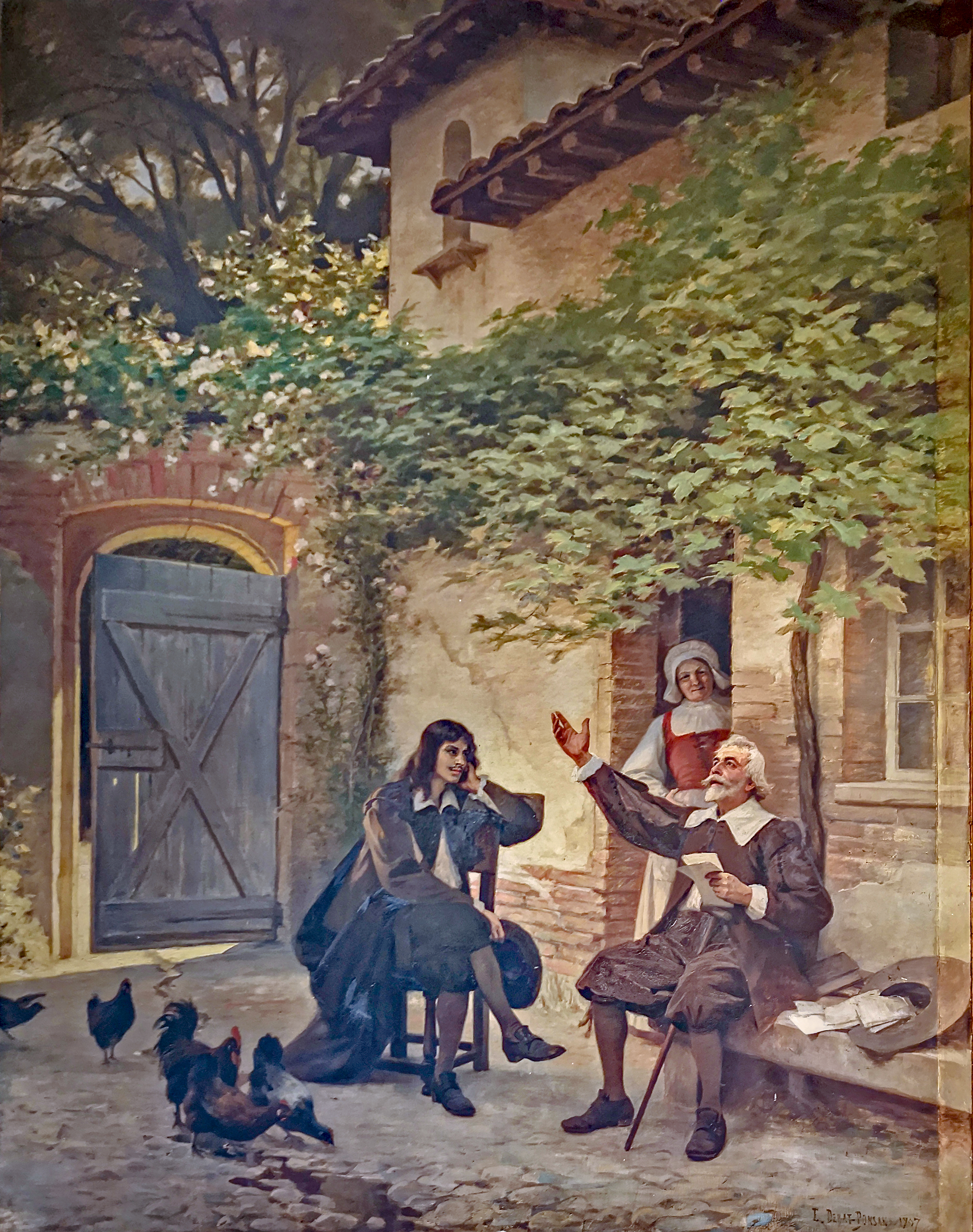 Depicted person: Molière – French playwright and actor Depicted person: Pèire Godolin – poet